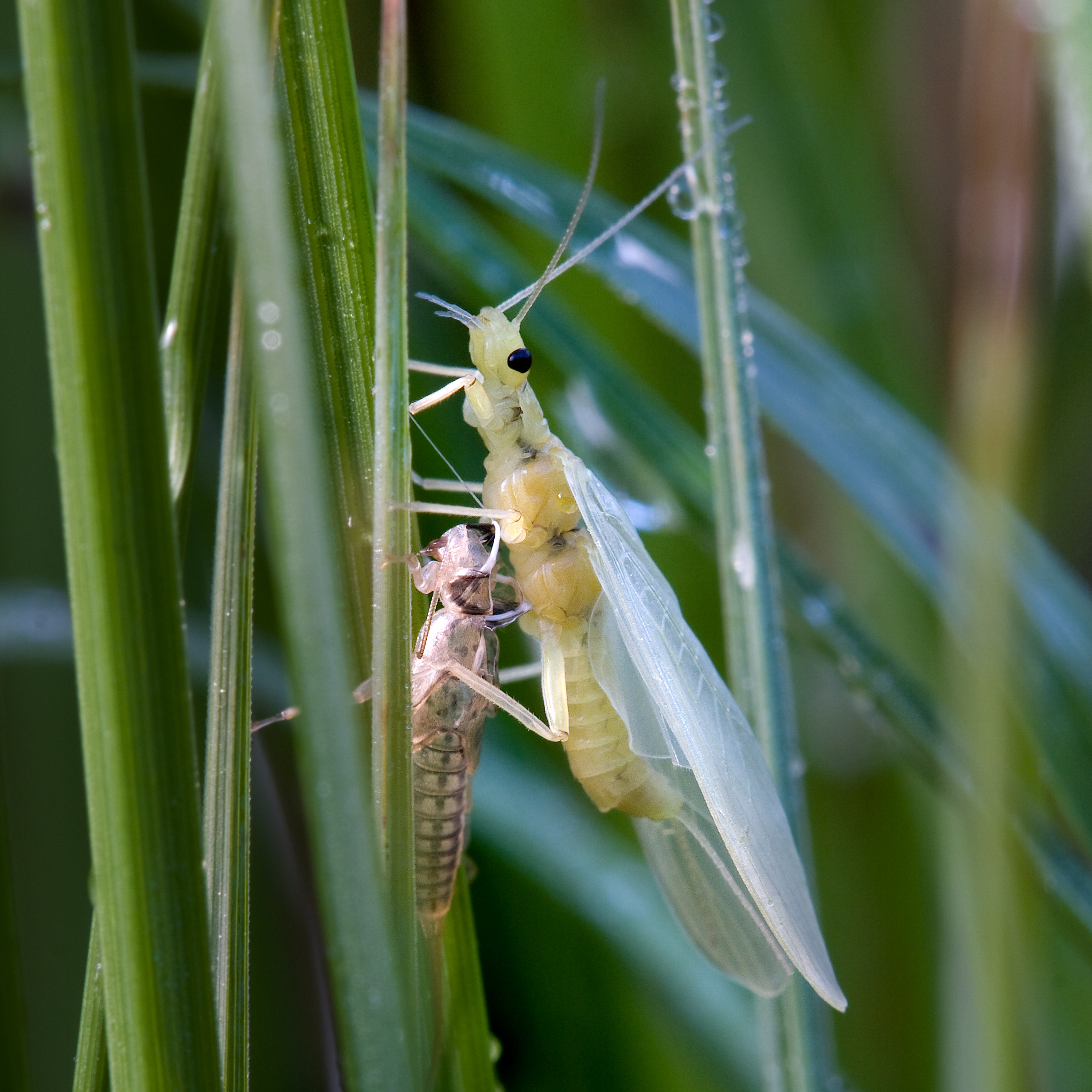 A Perlodid stonefly ((Isoperla sp.) also called stripetail, or springfly, hatches with her larva hull (Exuvie)